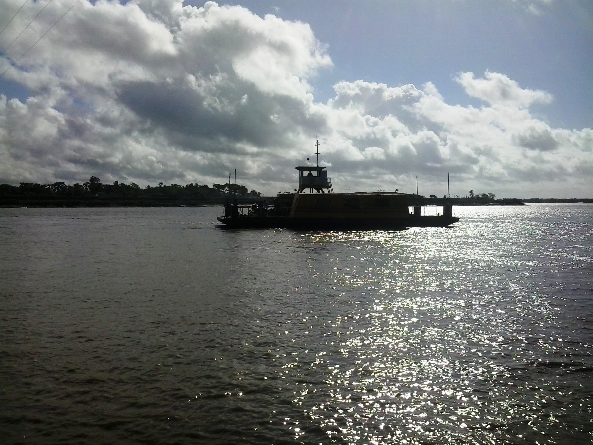 Rupsha river, Khulna